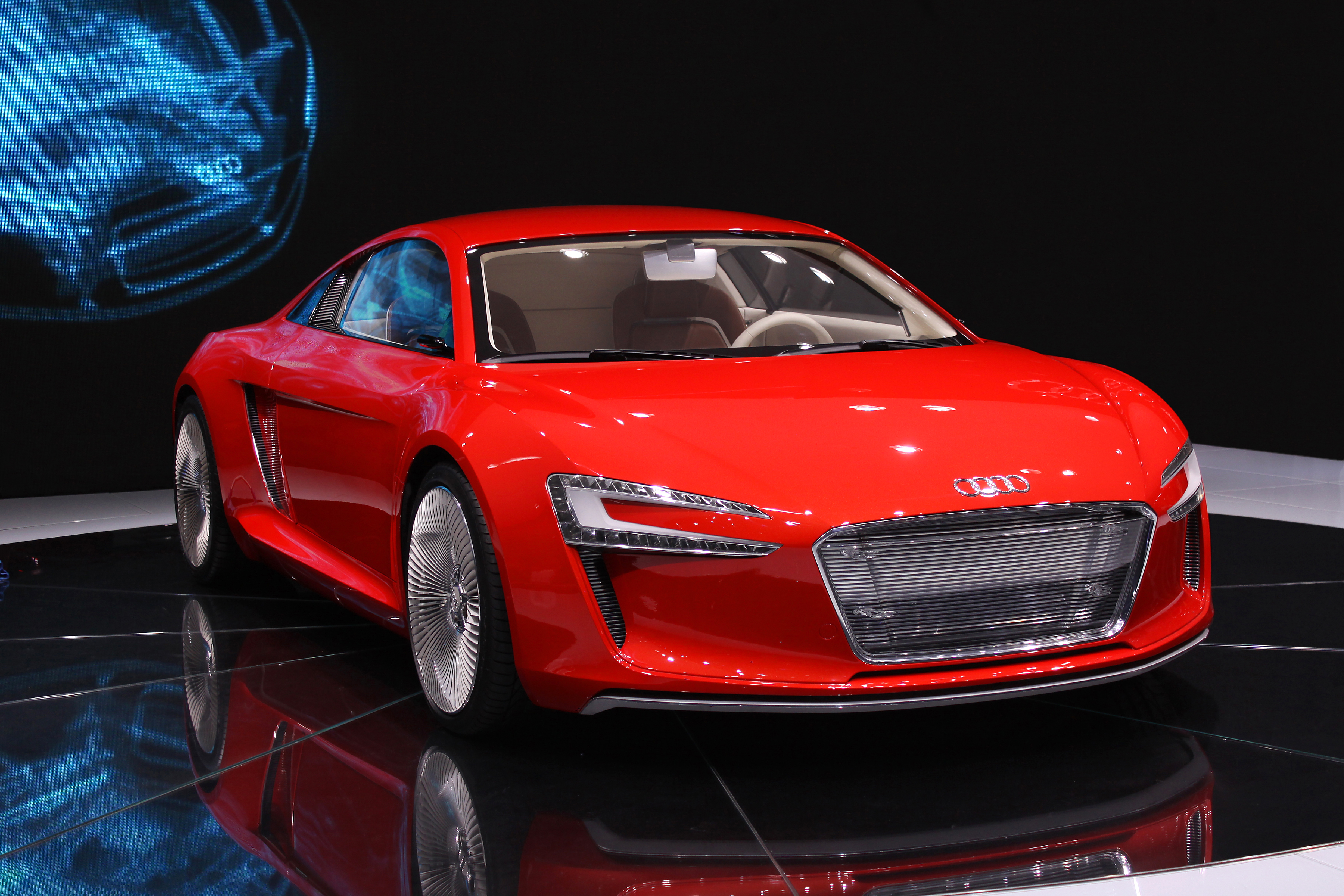 world premiere of the electric car "Audi e-tron" at the International Motor Show 2009 in Frankfurt, Germany